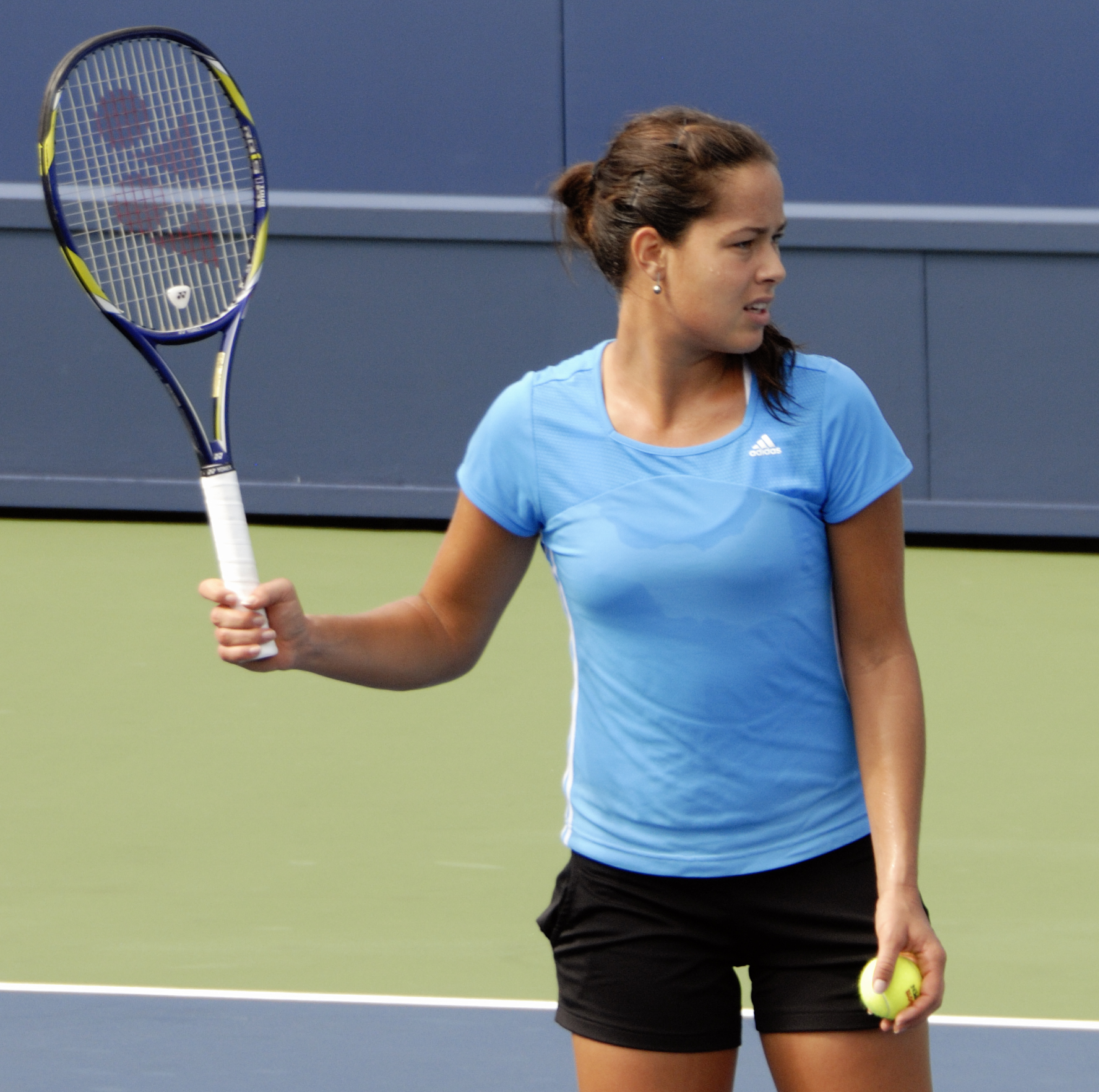 Ana Ivanović at the 2009 US Open